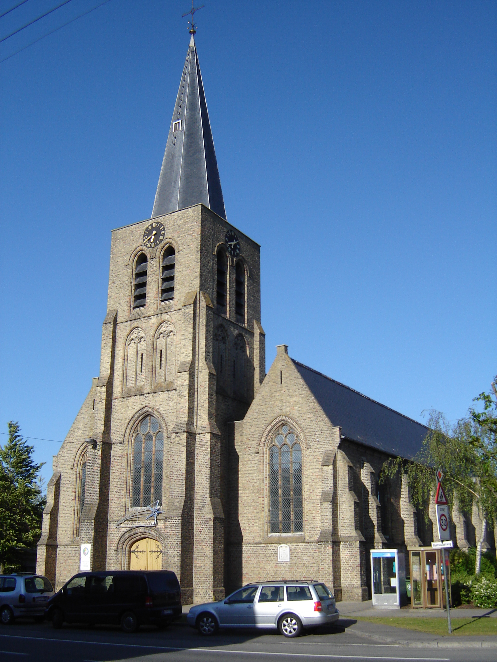 Church of Saint Godelina, in Beitem, in Rumbeke, Roeselare, West Flanders, Belgium